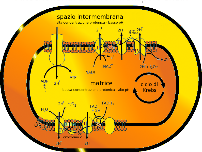 Own edit (+ Italian translation) of Image:Mitochondrial electron transport chain.png made with GIMP